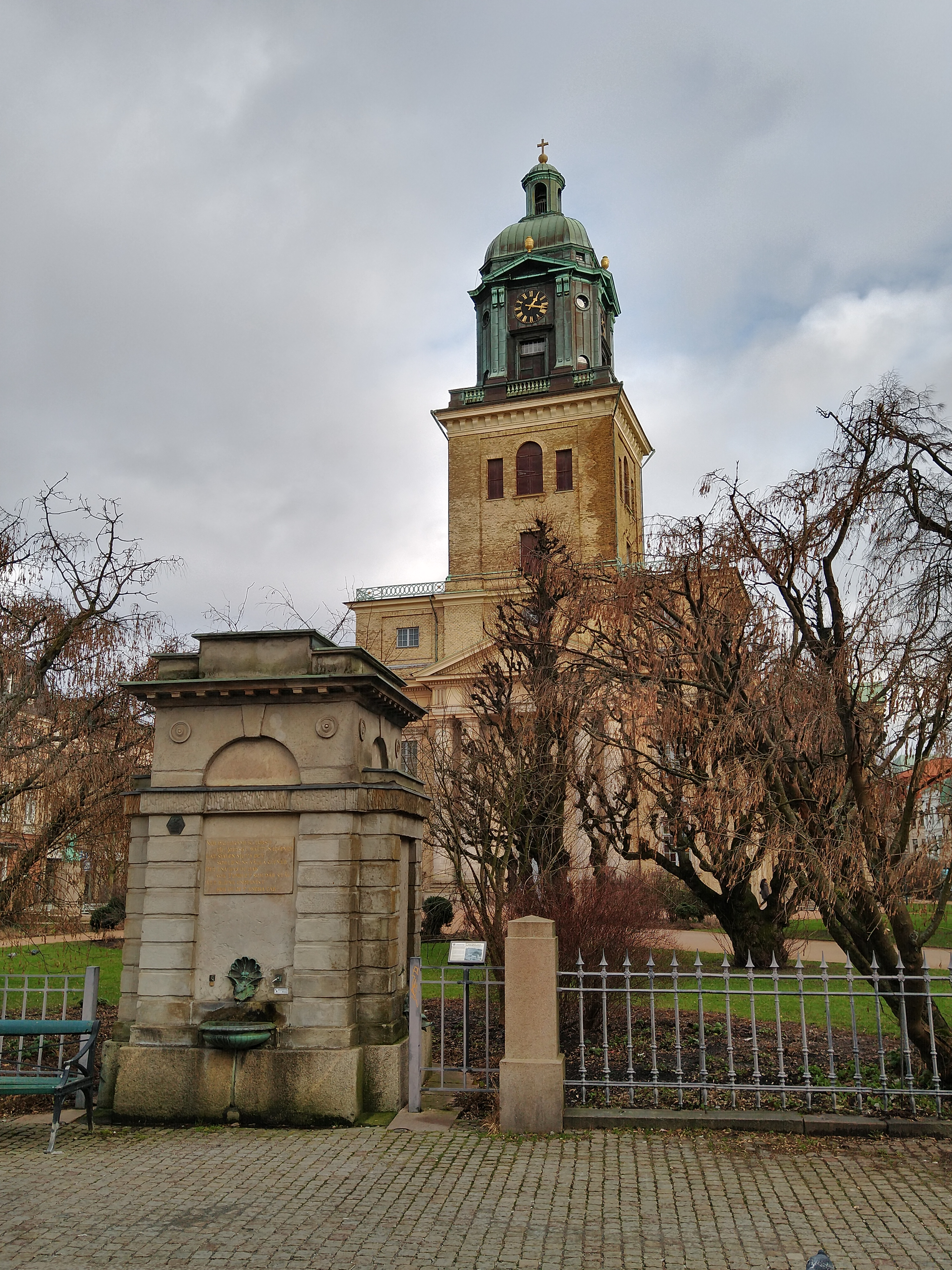 Cathedral well with cathedral in Gothenburg, Sweden